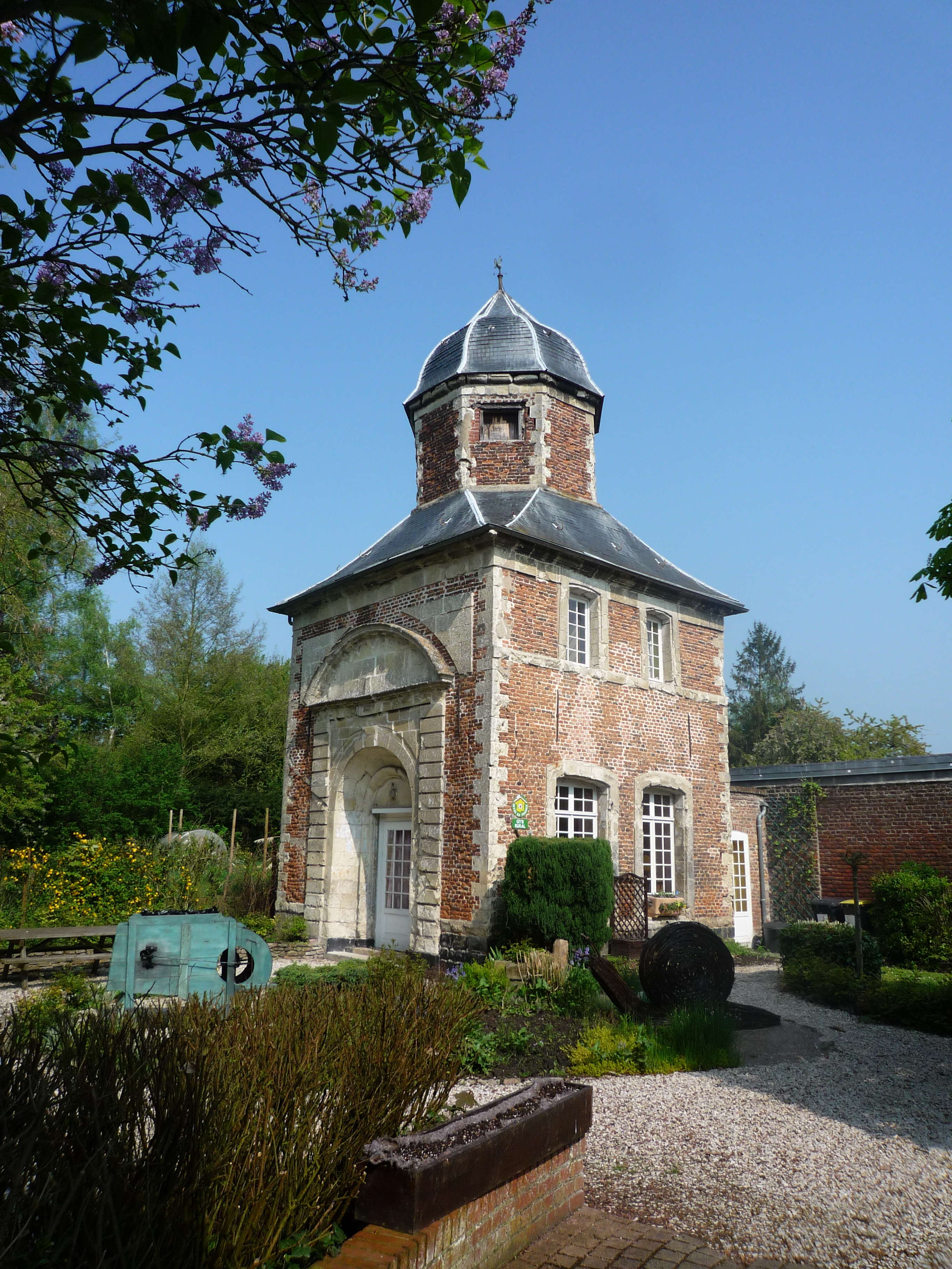 Rieulay, France.